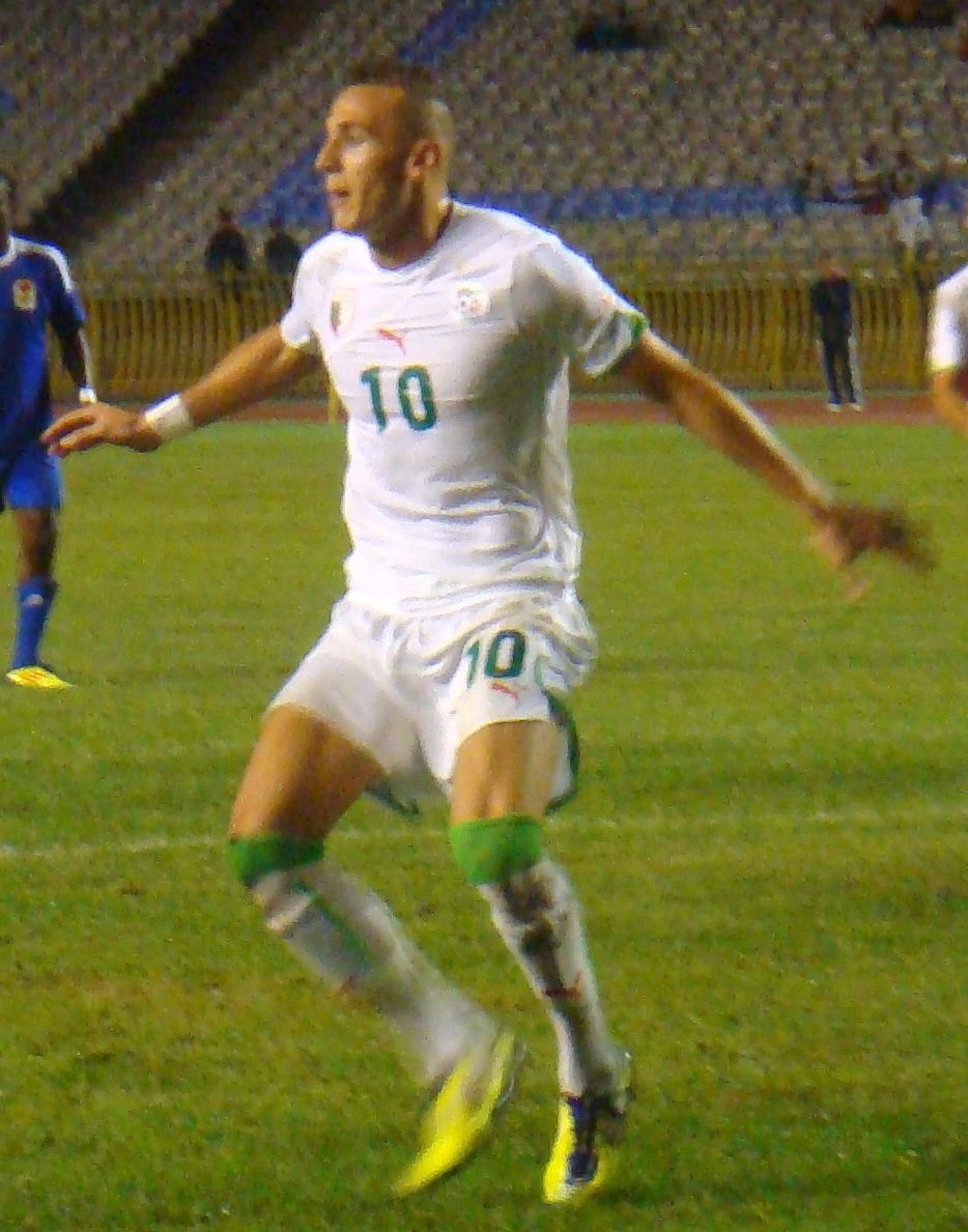 Yebda Hassen